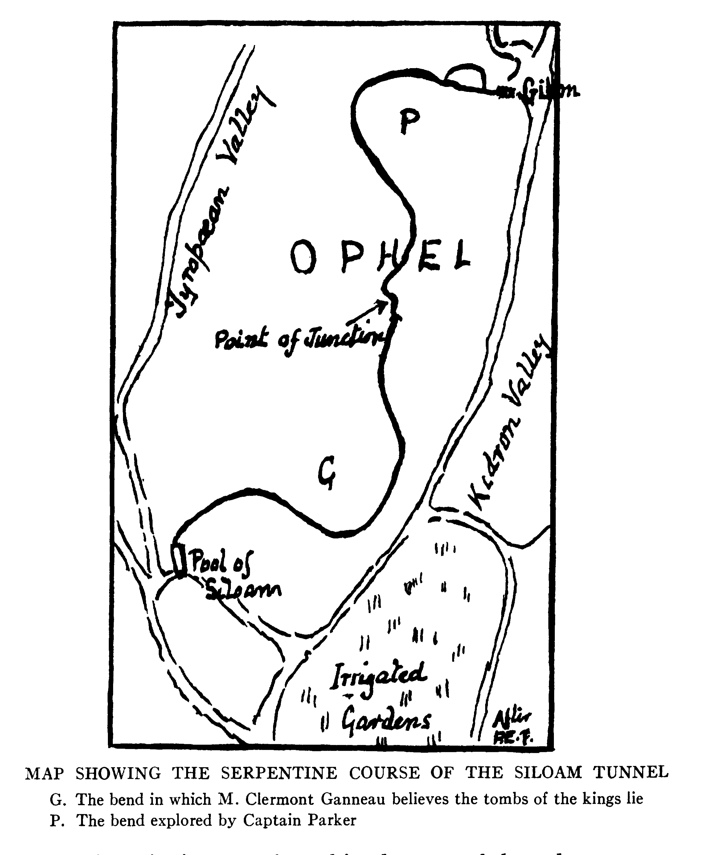 Map showing the bend of the Siloam tunnel explored by the Parker mission.